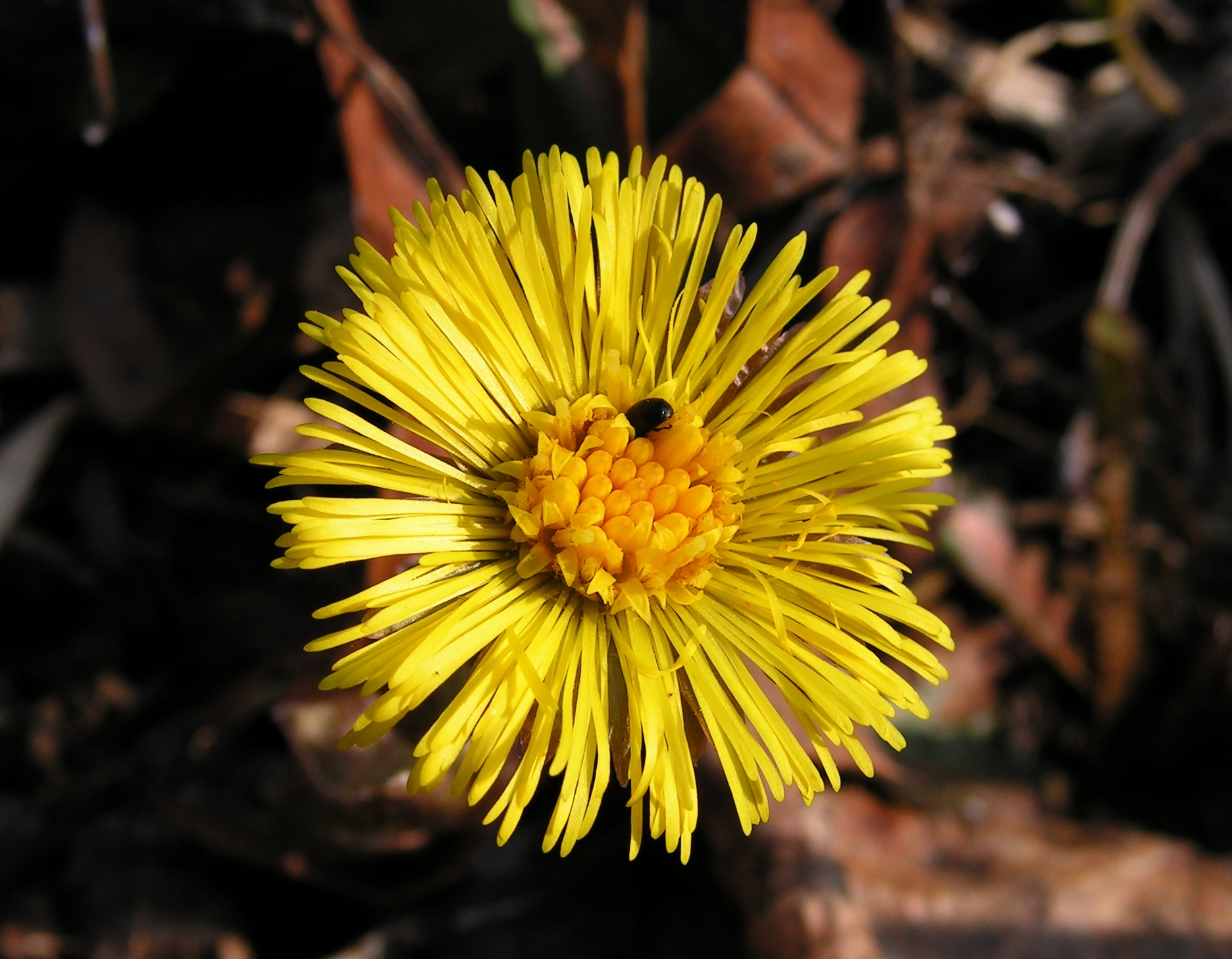 The inflorescence of Tussilago farfara with pollinator. Moscow region, Russia.